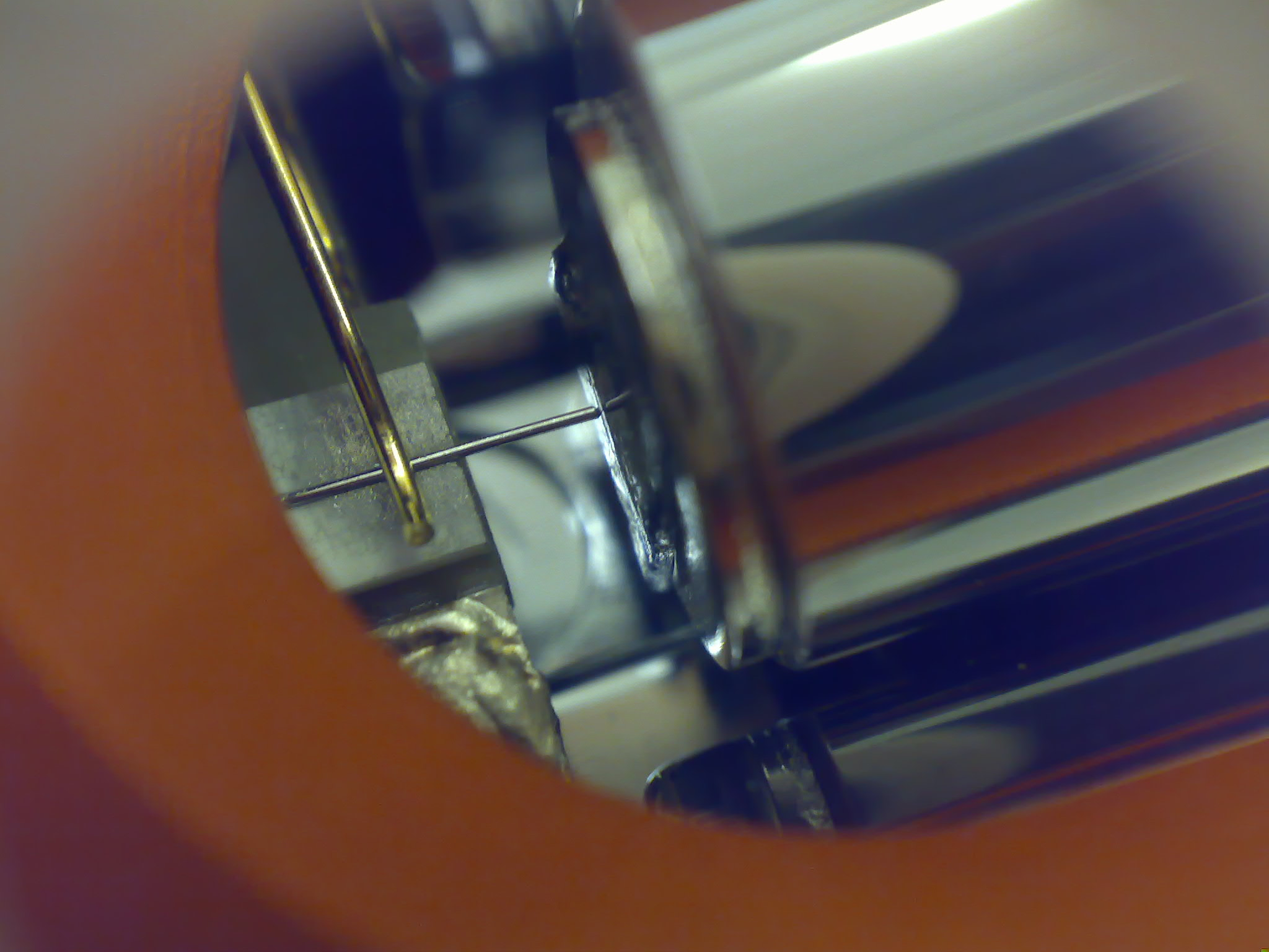 Closeup of scanning tunneling microscope sample under test at the University of St Andrews. Sample is MoS2 (Molybdenum Sulphide) being probed by a Platinum-Iridium tip.